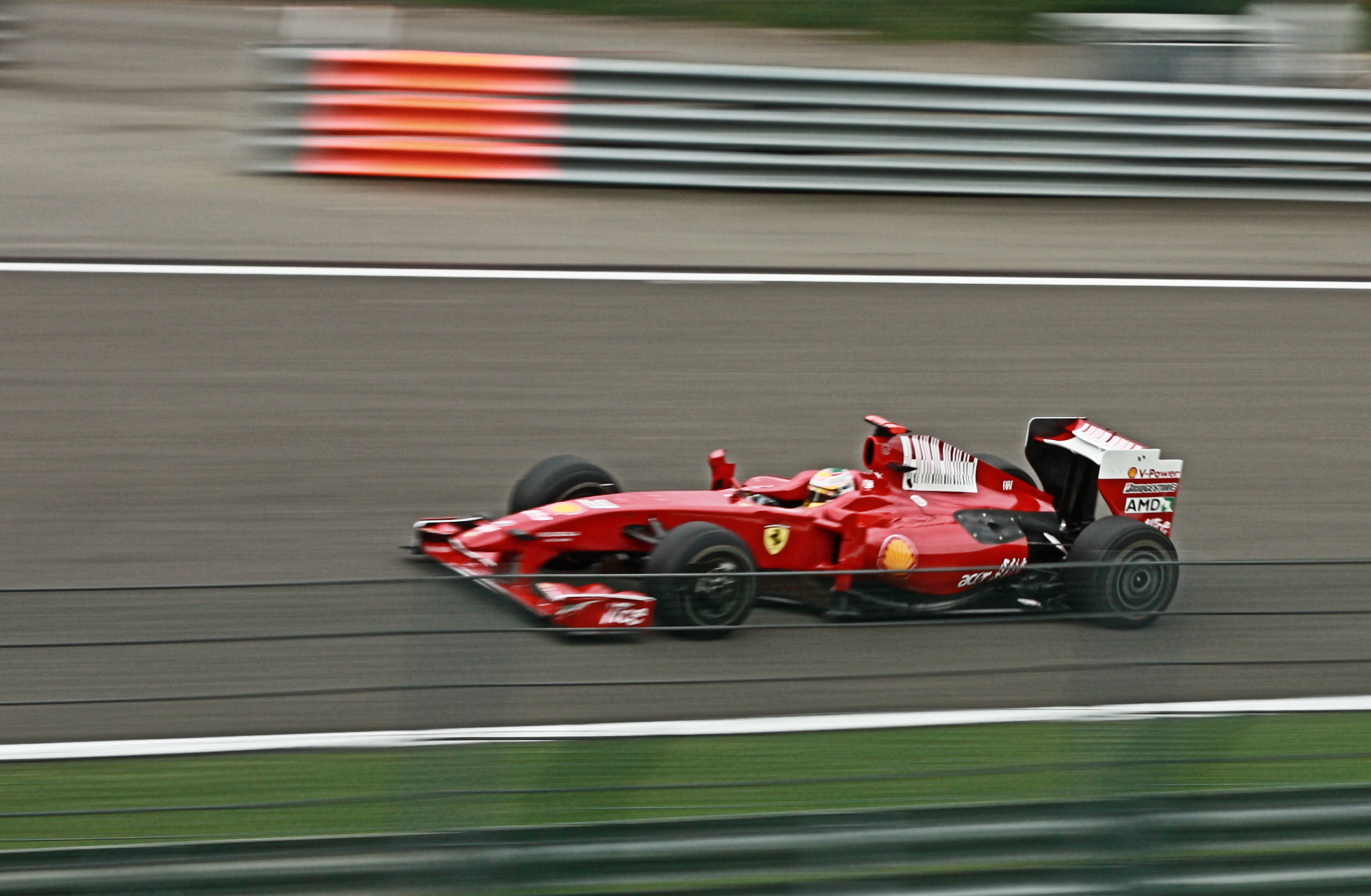 Luca Badoer driving for Scuderia Ferrari at the 2009 Belgian Grand Prix.